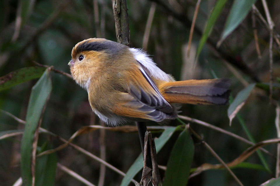 Wawu Shan, Sichuan Fulvous Parrotbill Paradoxornis fulvifrons